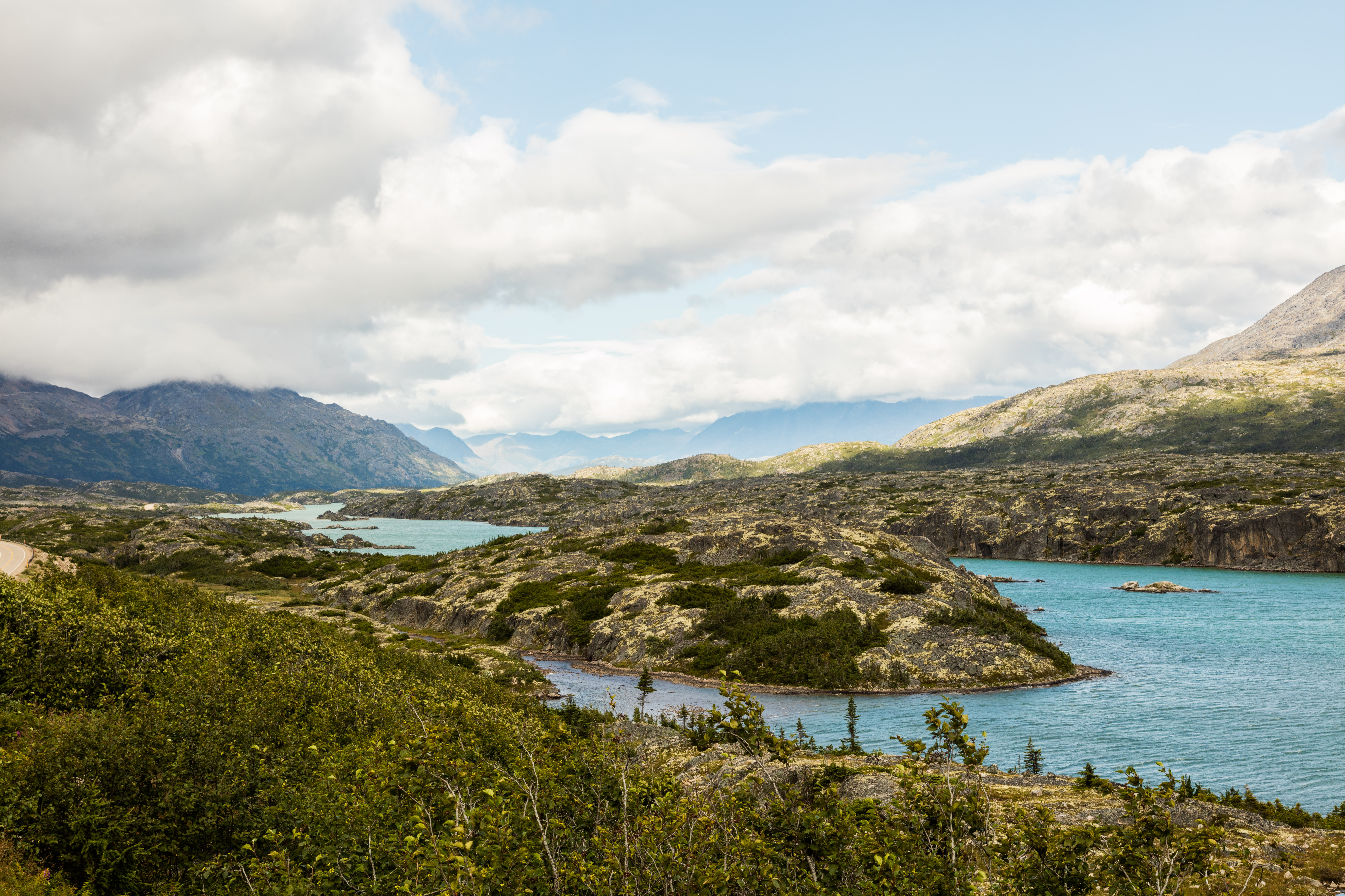 Bernard Lake, British Columbia, Canada